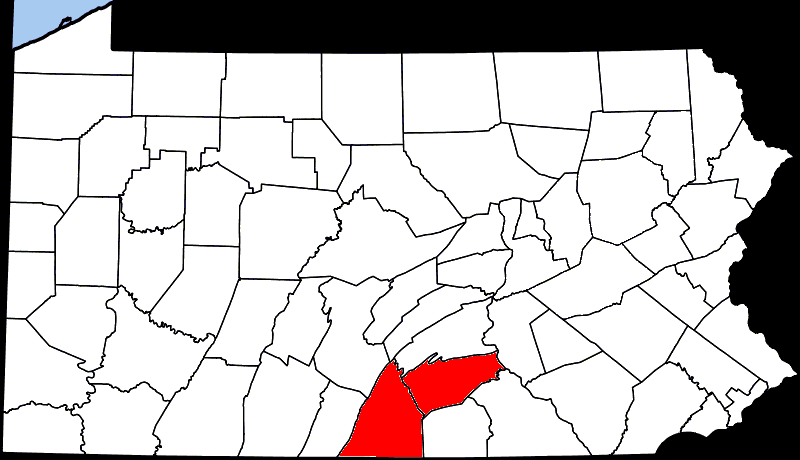 altered version of (Public domain map courtesy of The General Libraries, The University of Texas at Austin, modified to show counties relevant to article. Released under GFDL. See Wikipedia:U.S. county maps.)